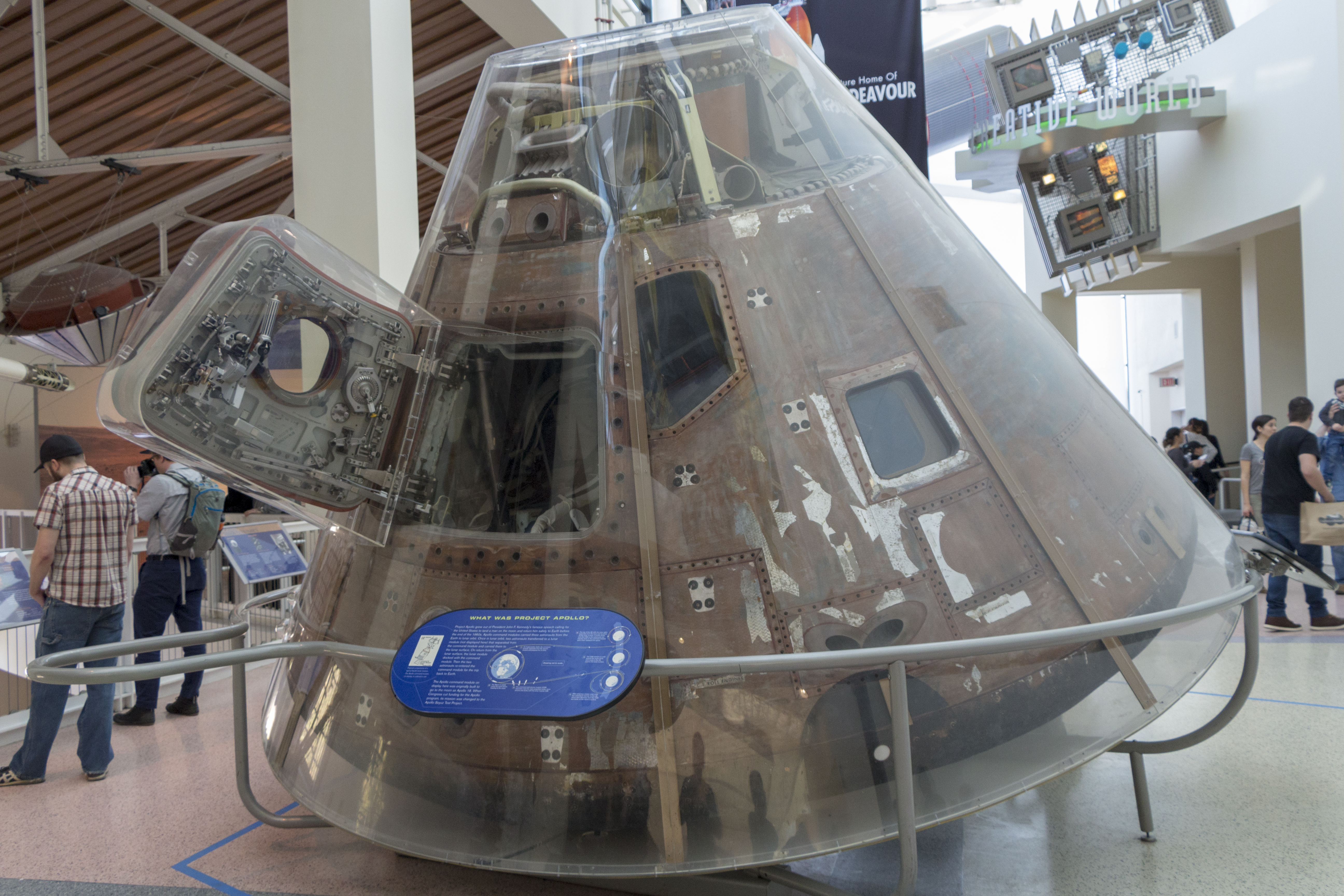 Apollo Command Module from the Apollo-Soyuz project Exhibit at the California Science Center